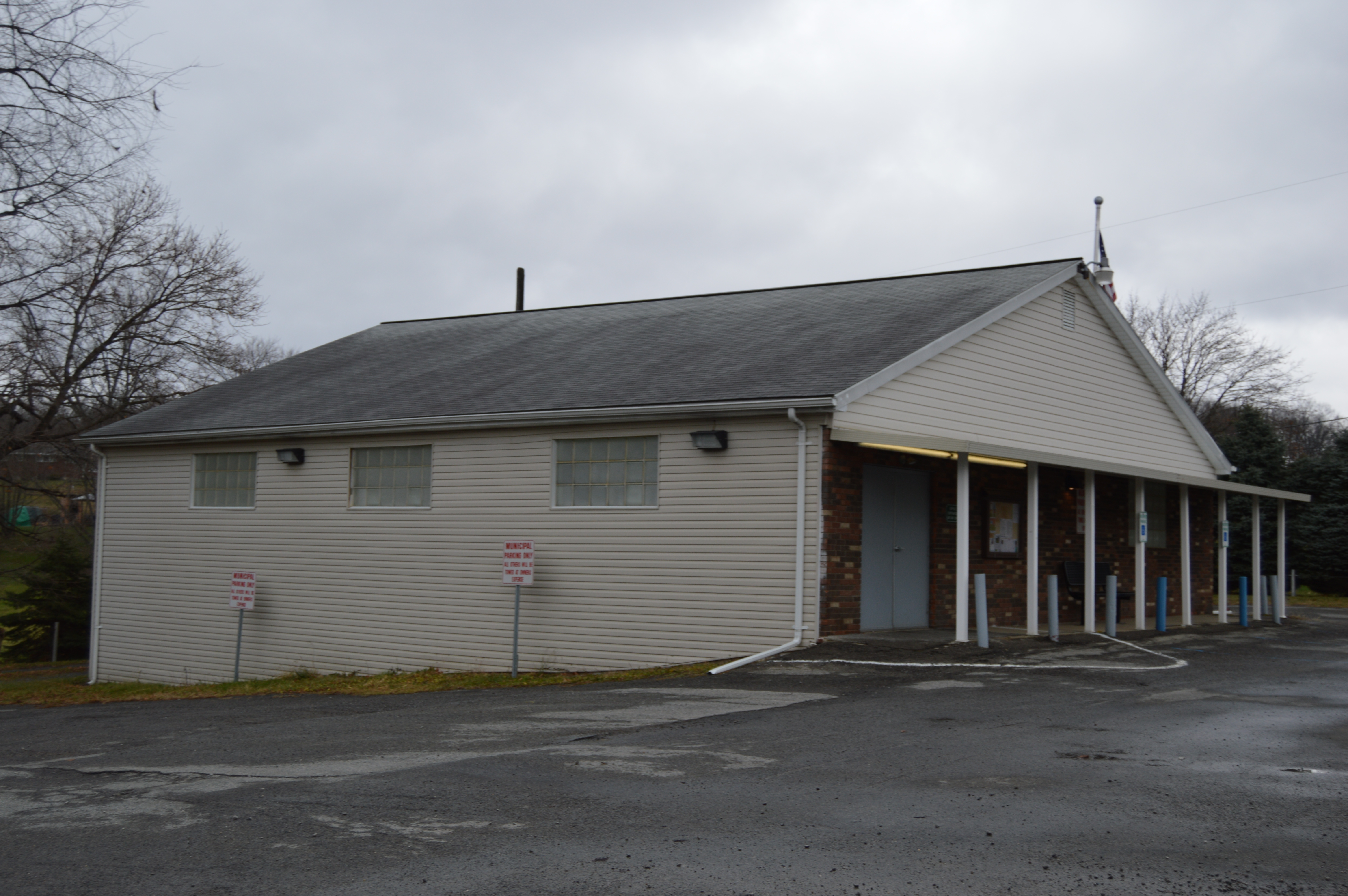 Western side and front of the municipal building for Oakland Township, Butler County, Pennsylvania, United States, located on Pennsylvania Route 68 at Woodbine.